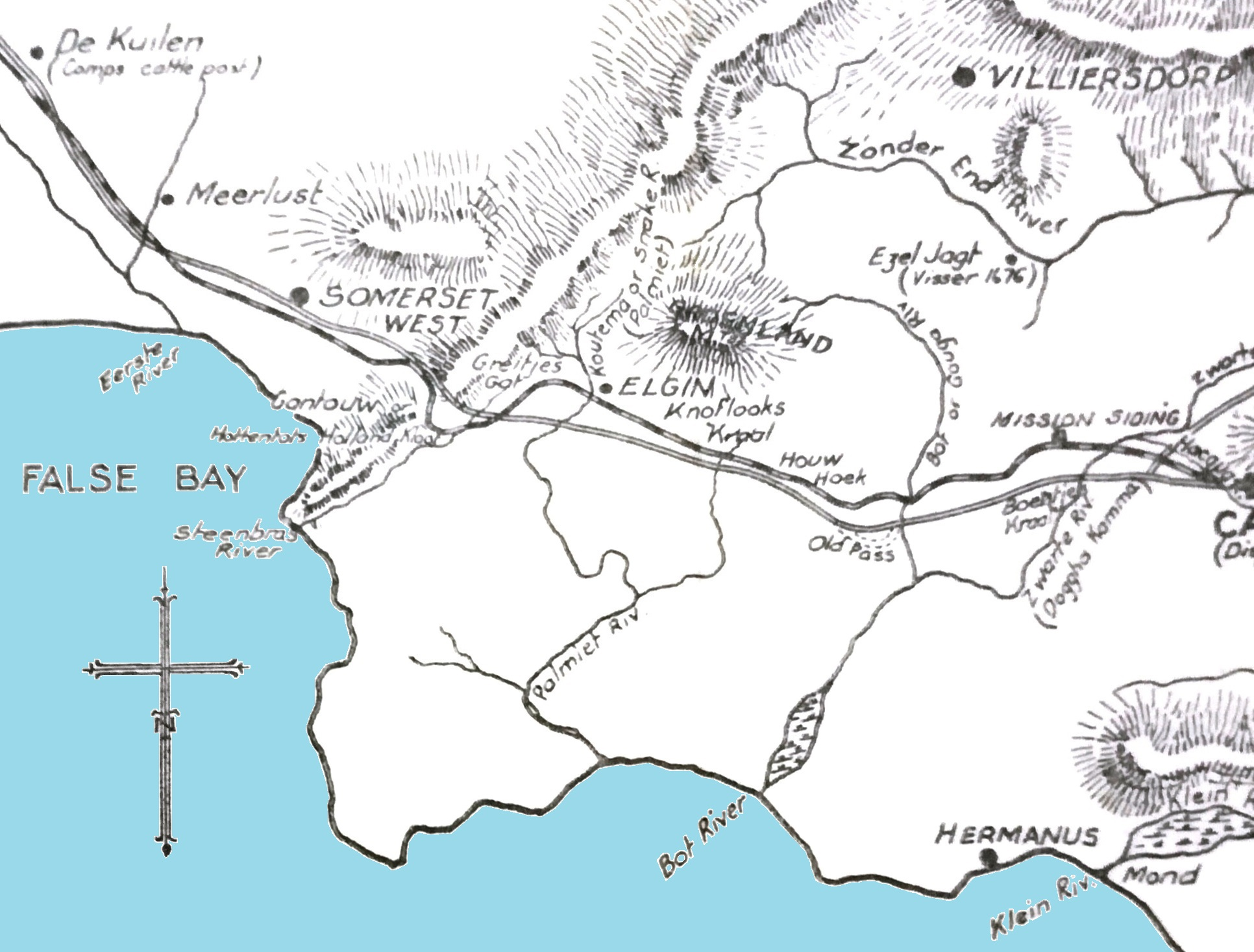 Early map of Somerset West, Palmiet river, Elgin valley, and the Kogelberg and Groenland mountains. Cape Archives.